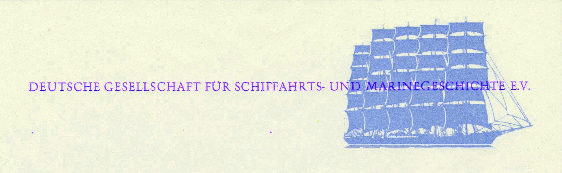 Age letter head of the German Society for marine and naval history eV - DGSM